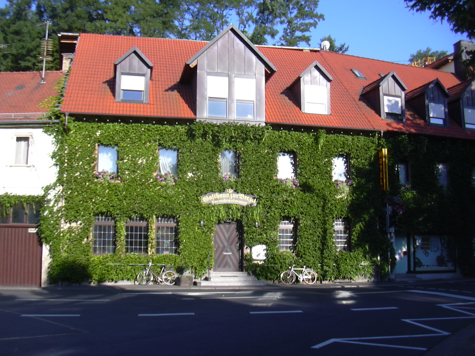 Oldest tavern (mentioned 1744), brewery since 2004, Alzenau, near Aschaffenburg, Bavaria/Germany